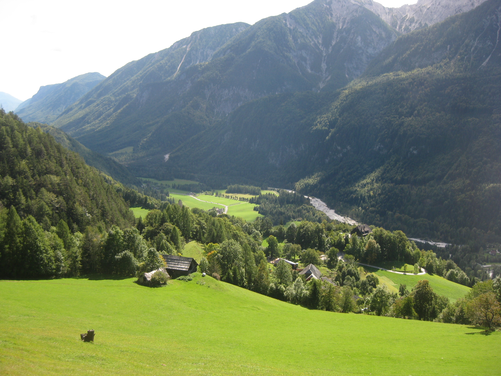 Upper Sava valley, Slovenia